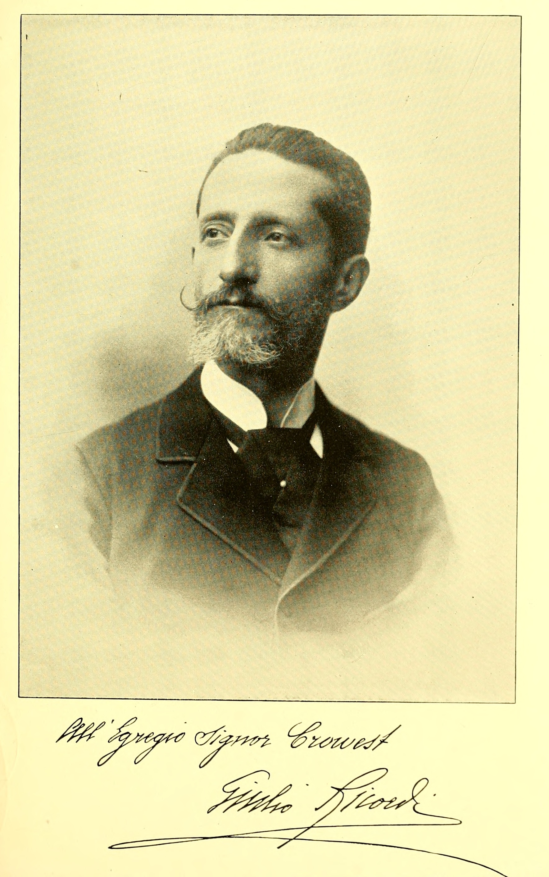 Giulio Ricordi